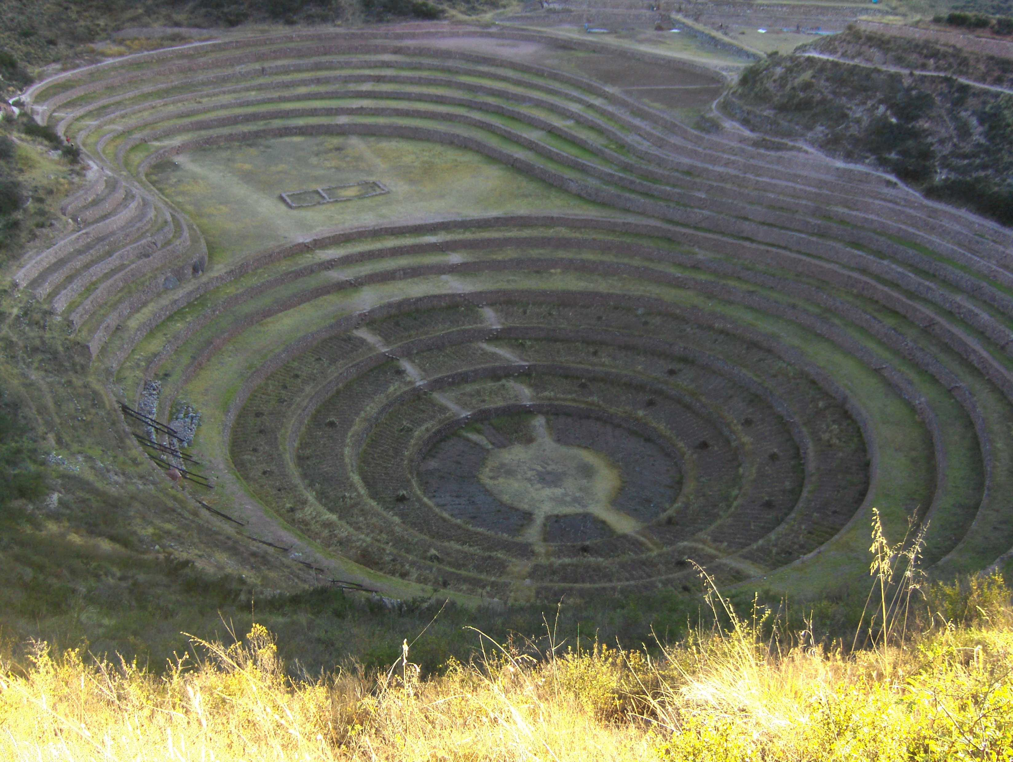 An image of the Incan agricultural terracing at Moray, Peru, from my vacation.